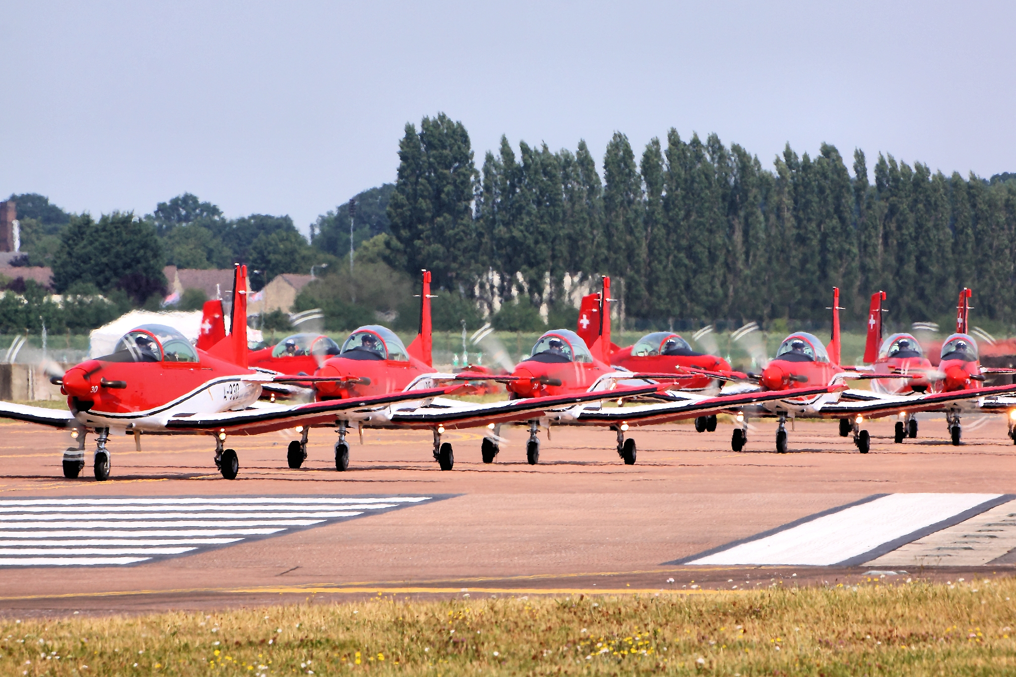 Swiss PC-7 Team - RIAT 2013